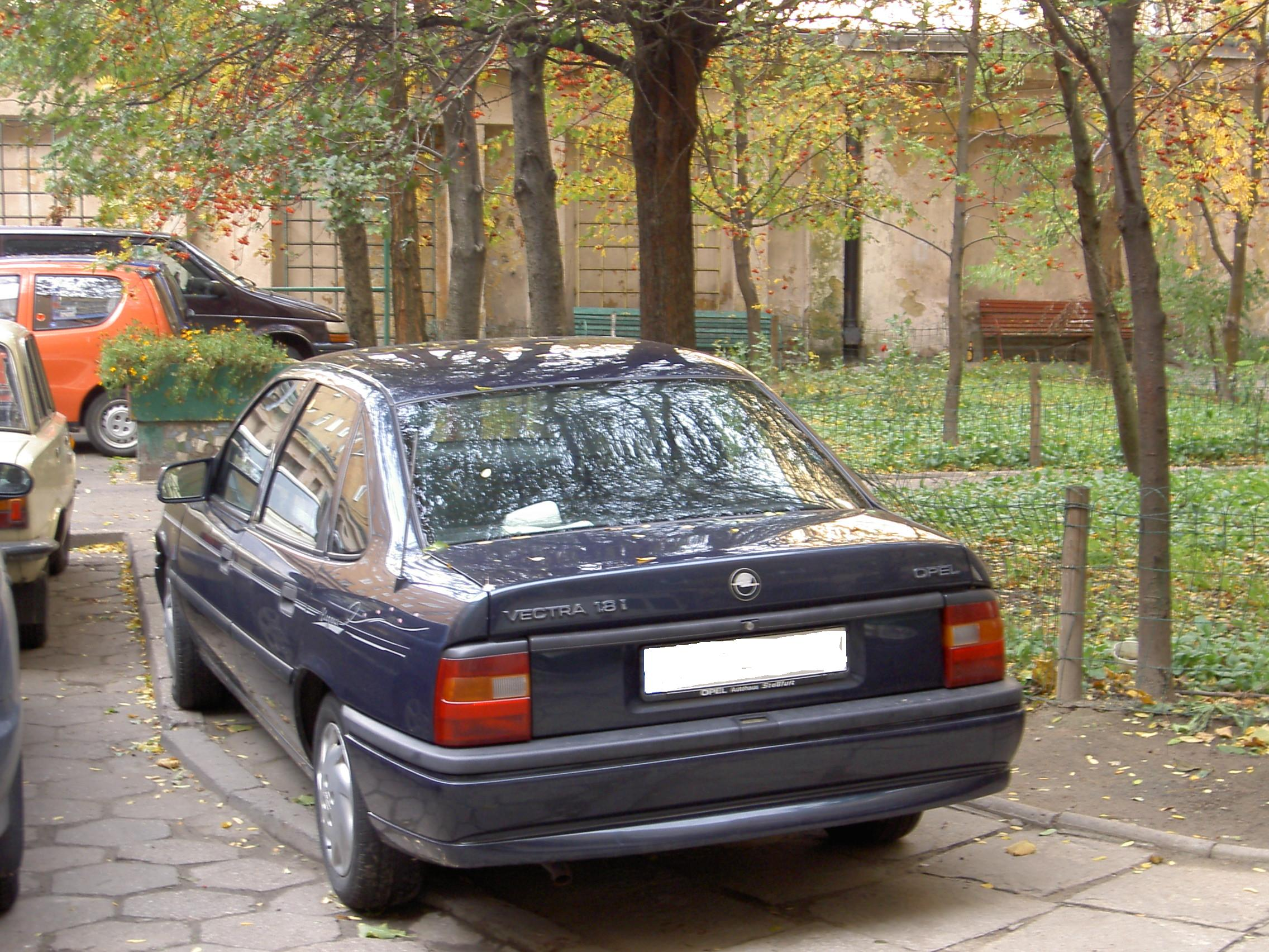 Opel Vectra first generation in Warsaw Picture taken by me in november 2006